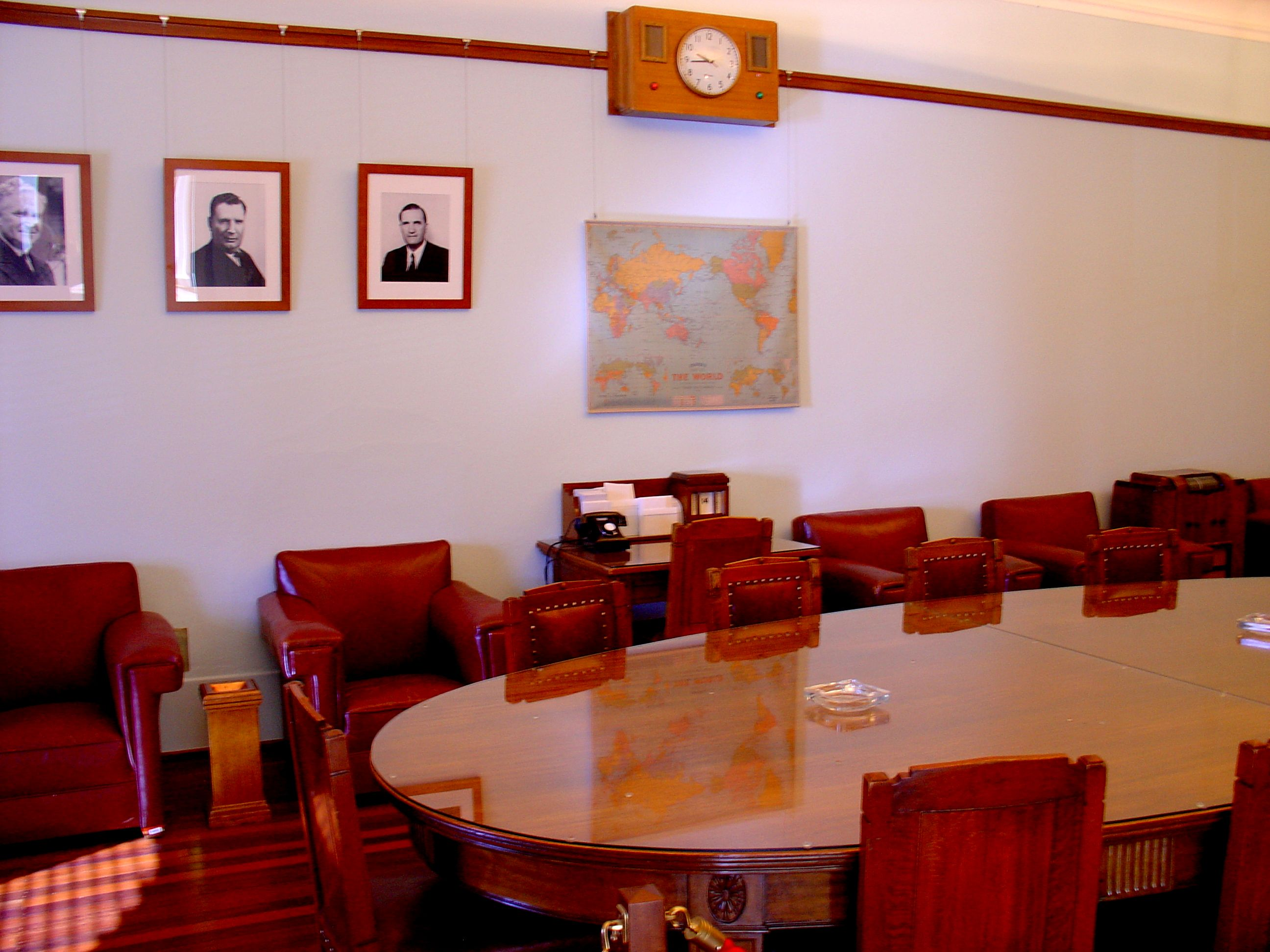 Party room of the National Party of Australia (originally, the Country Party.